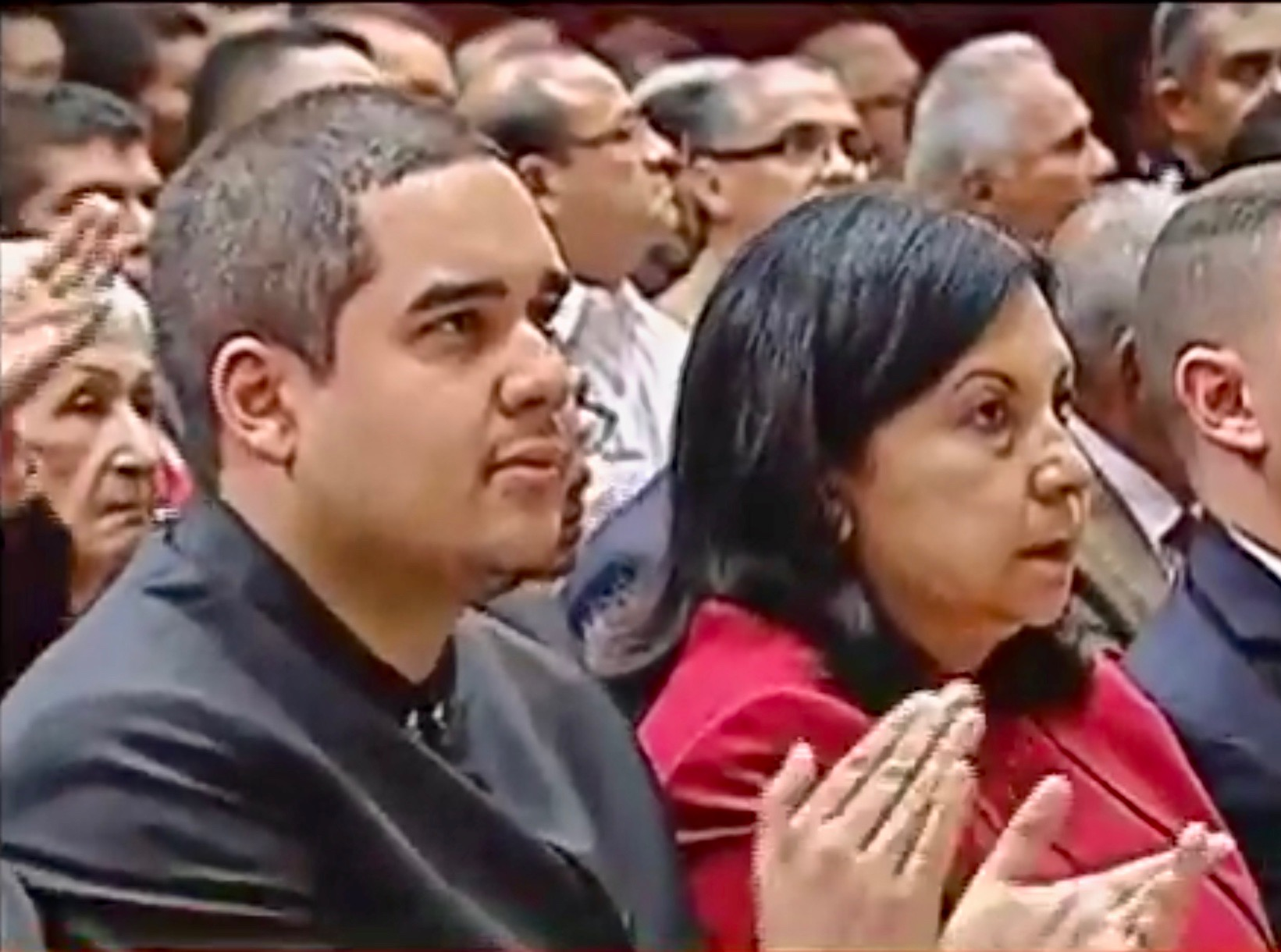 Nicolás Maduro Guerra, a member of the 2017 Venezuelan Constituent Assembly and son of President Nicolás Maduro, during the 10 August 2017 session. He is seated beside Carmen Meléndez.